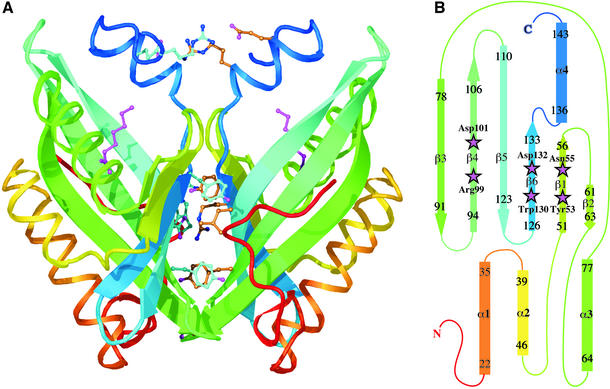 Enzime structure